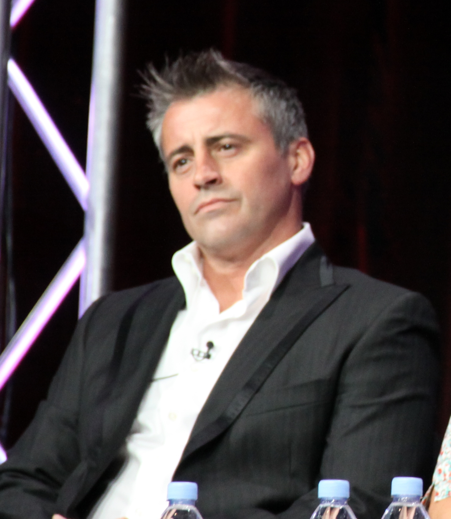 Cropped version of Episodes cast TCA 2010.jpg